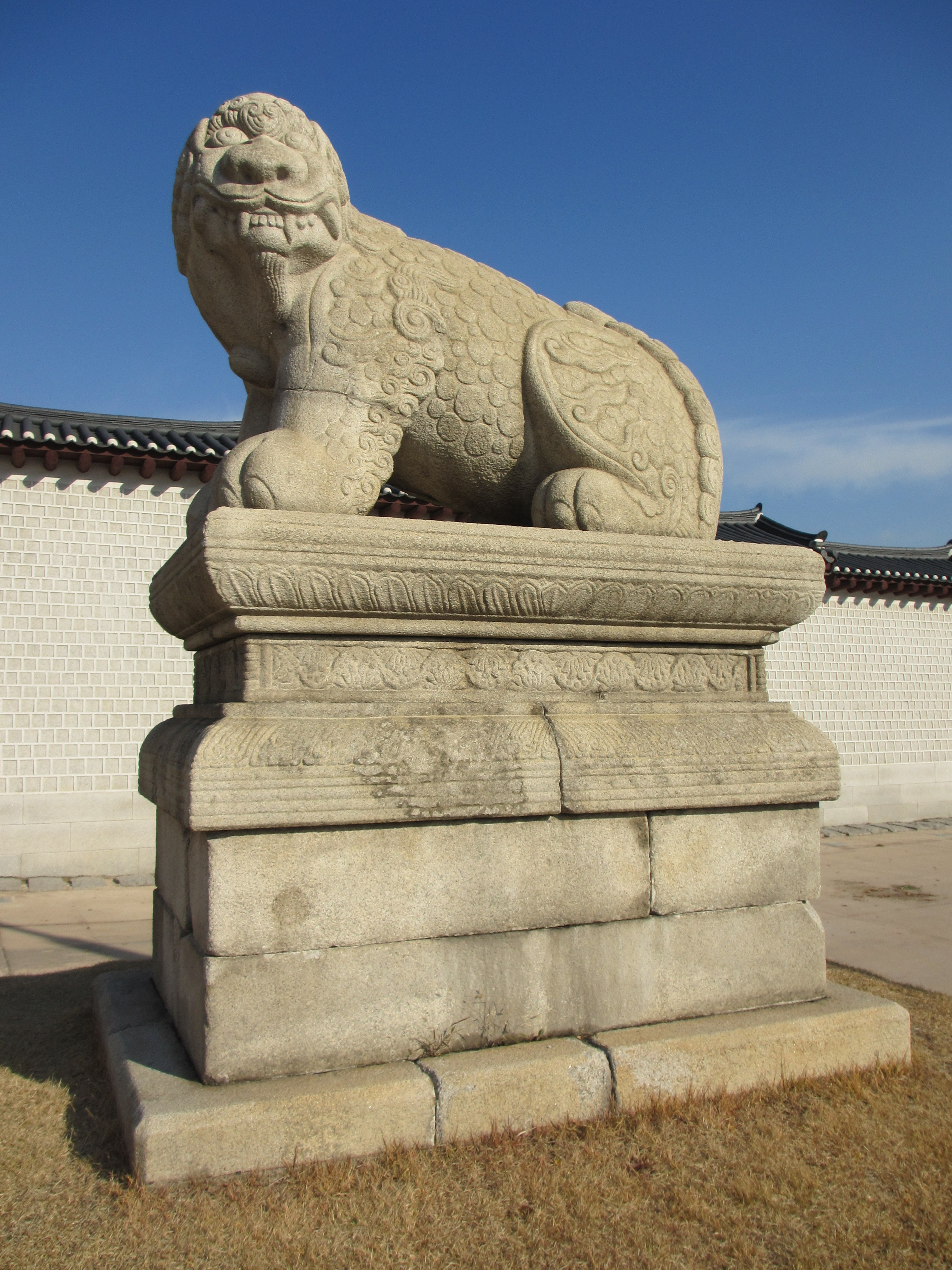 Haetae In Gyeongbokgung Palace.